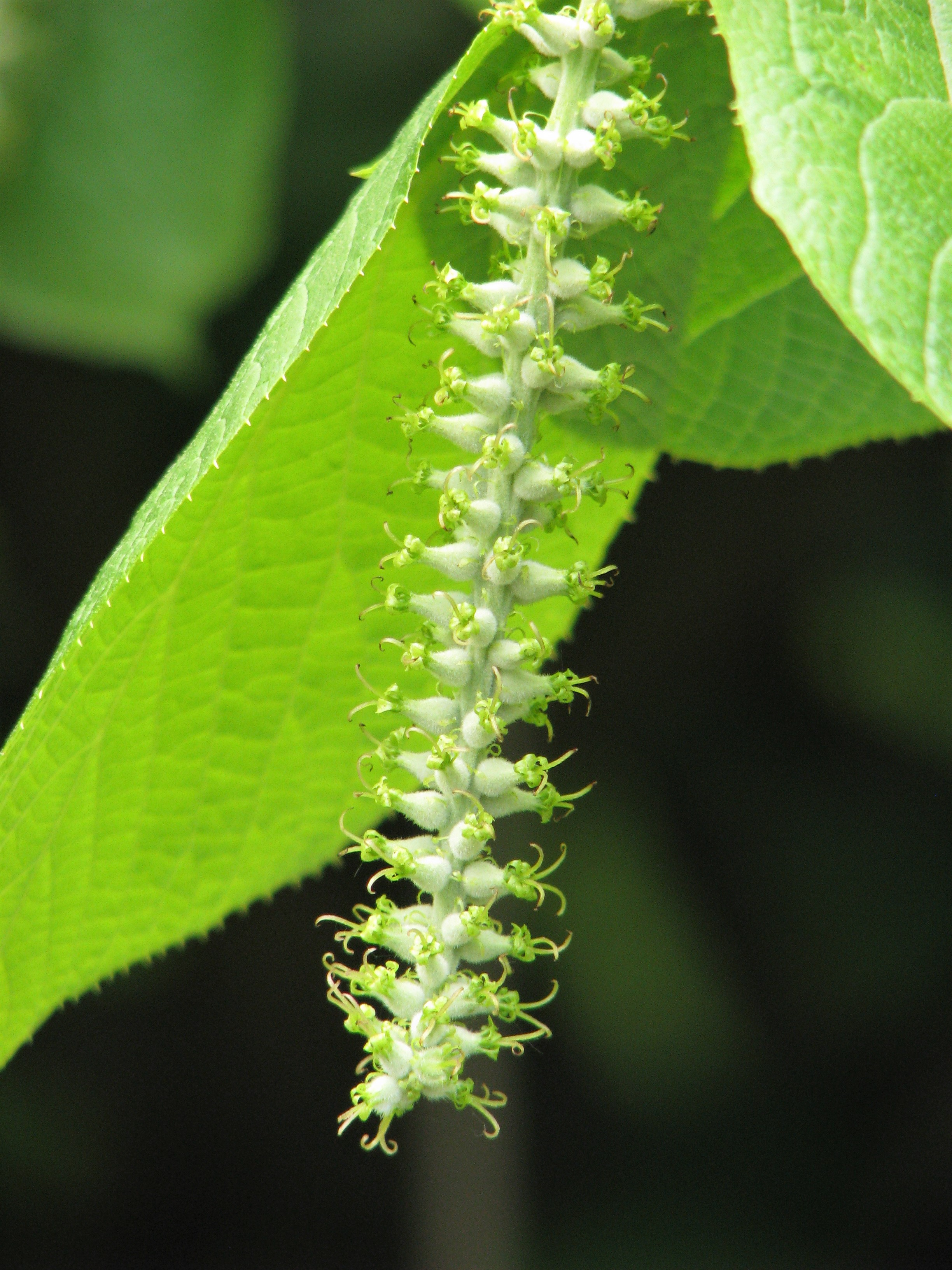 Sinowilsonia henryi, inflorescence, plant cultivated in Wrocław University Botanical Garden, Wrocław, Poland.